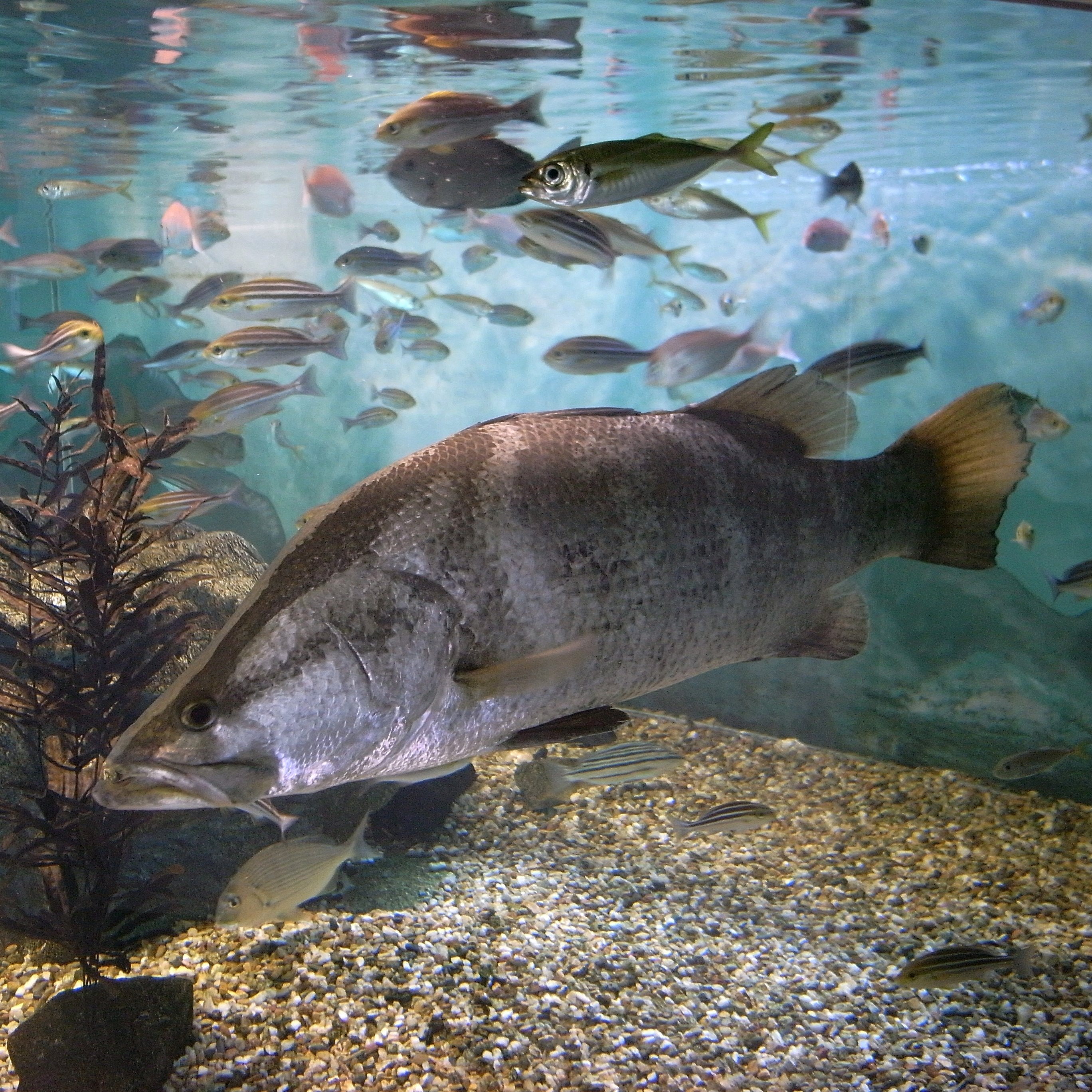 Japanese lates at Himeji Aquarium